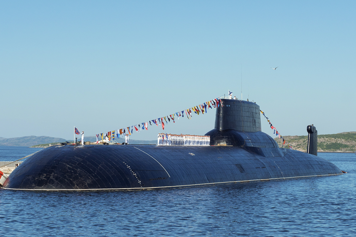 Dmitriy Donskoi (TK-208).